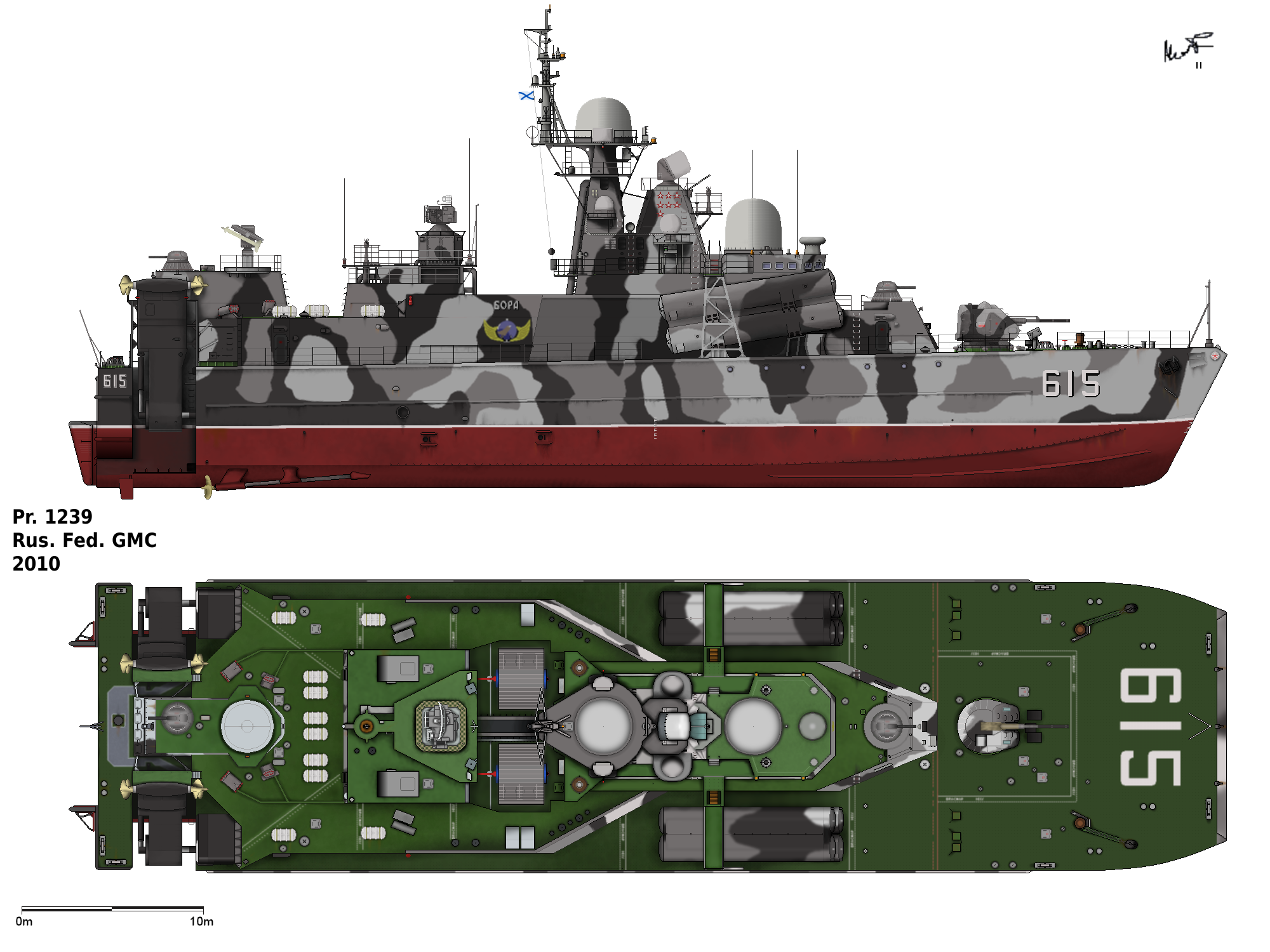 2-view drawing of the Russian Federation Project 1239 Guided Missile Craft "Bora", as seen in 2010. Dimensions as written by Apalkow Y.V. in "Ships of the soviet navy", Vol. 2, Sankt Petersburg, 2004, ISBN 5-8172-0087-2, all details reconstructed from photographs provided by various sources.